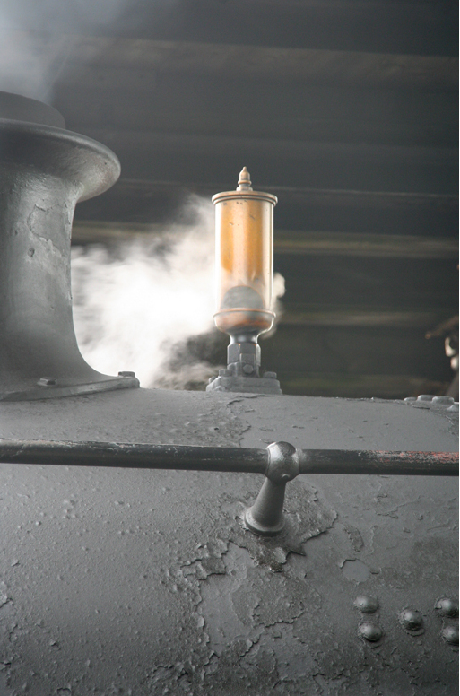 Steam locomotive whistle